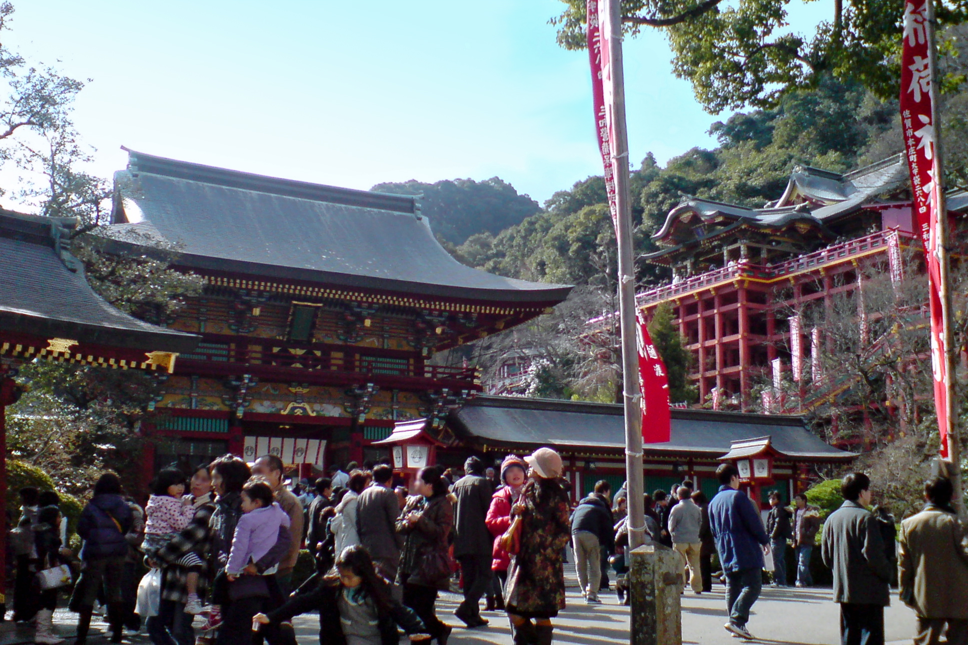 Yūtoku Inari Shrine, Kashima, Saga prefecture, Japan